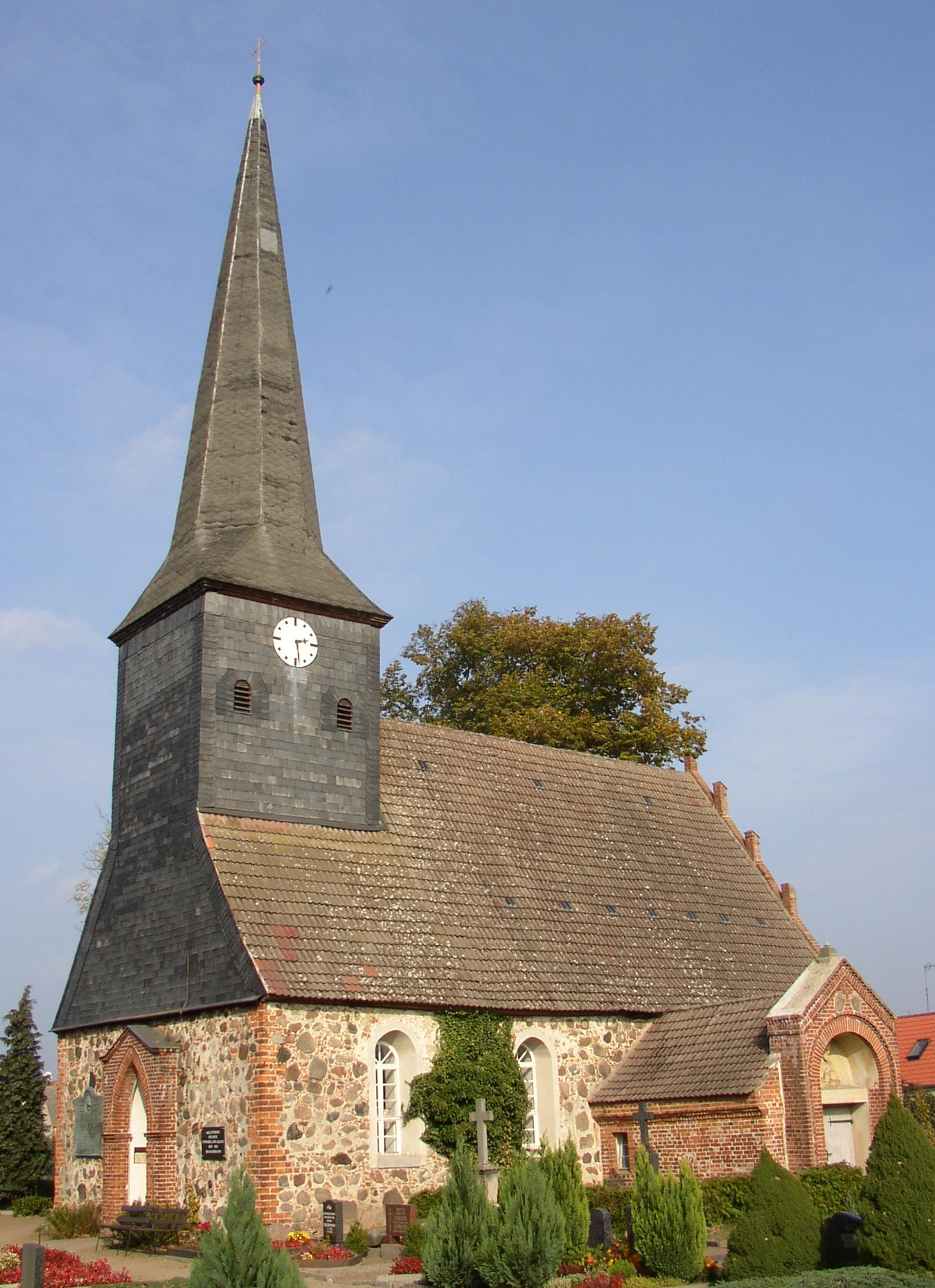 Church in Neuruppin-Wulkow in Brandenburg, Germany